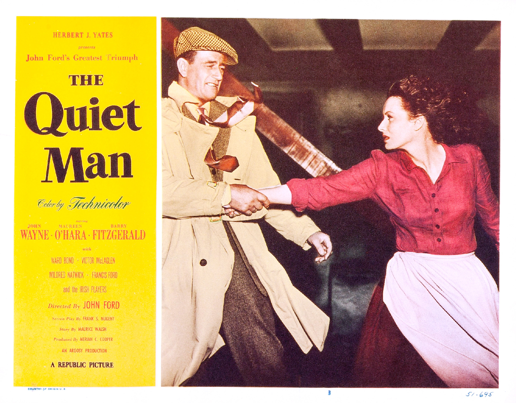 Lobby card from The Quiet Man (1952). Pictured are John Wayne and Maureen O’Hara.